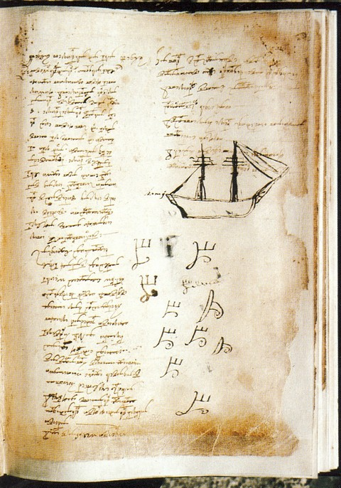 Croatian Glagolitic quicscript book found in a Glagolitic convent near Murvica, near famous Zlatni rat, on the island of Brač